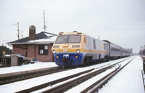 The westbound International led by a Via LRC locomotive at Flint station in November 1982